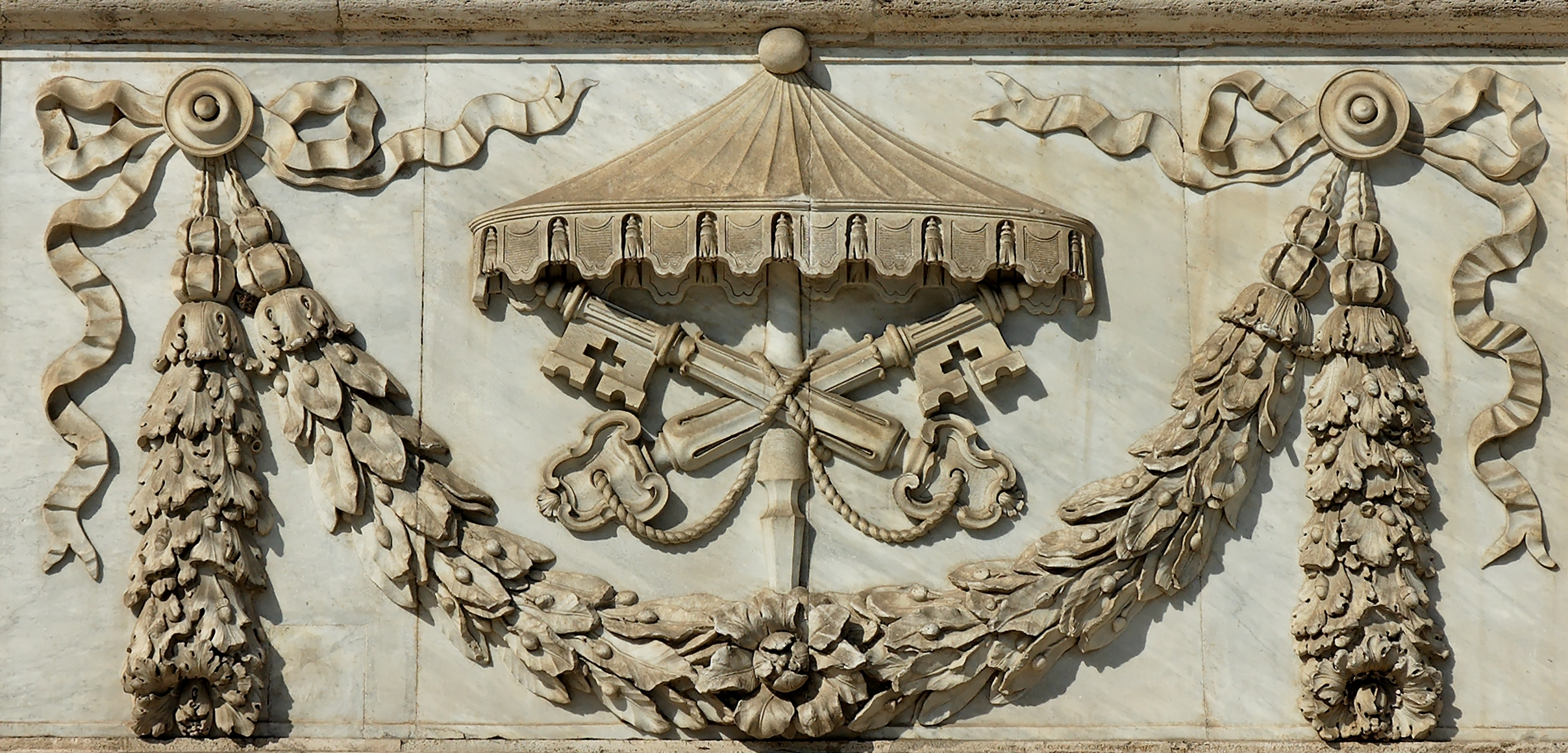 Coat of arms with the keys of St. Peter and the umbraculum. Relief on the façade of the Basilica of St. John Lateran (Rome).